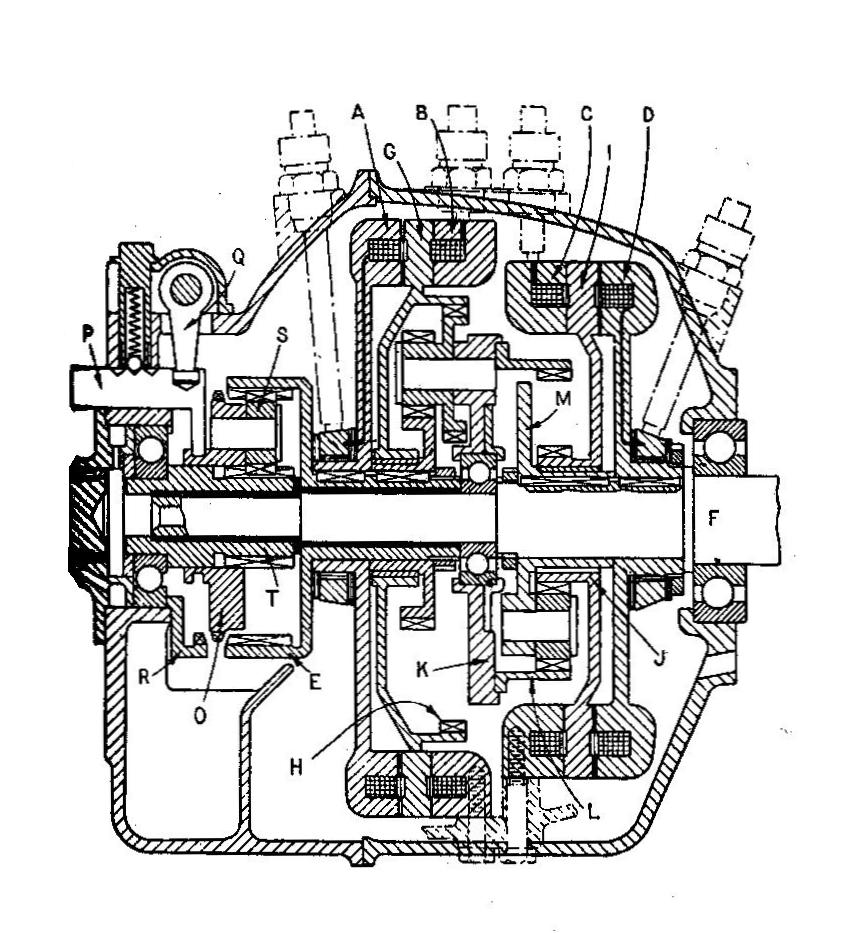 Cotal electrically-activated epicyclic gearbox (Autocar Handbook, 13th ed, 1935).jpg